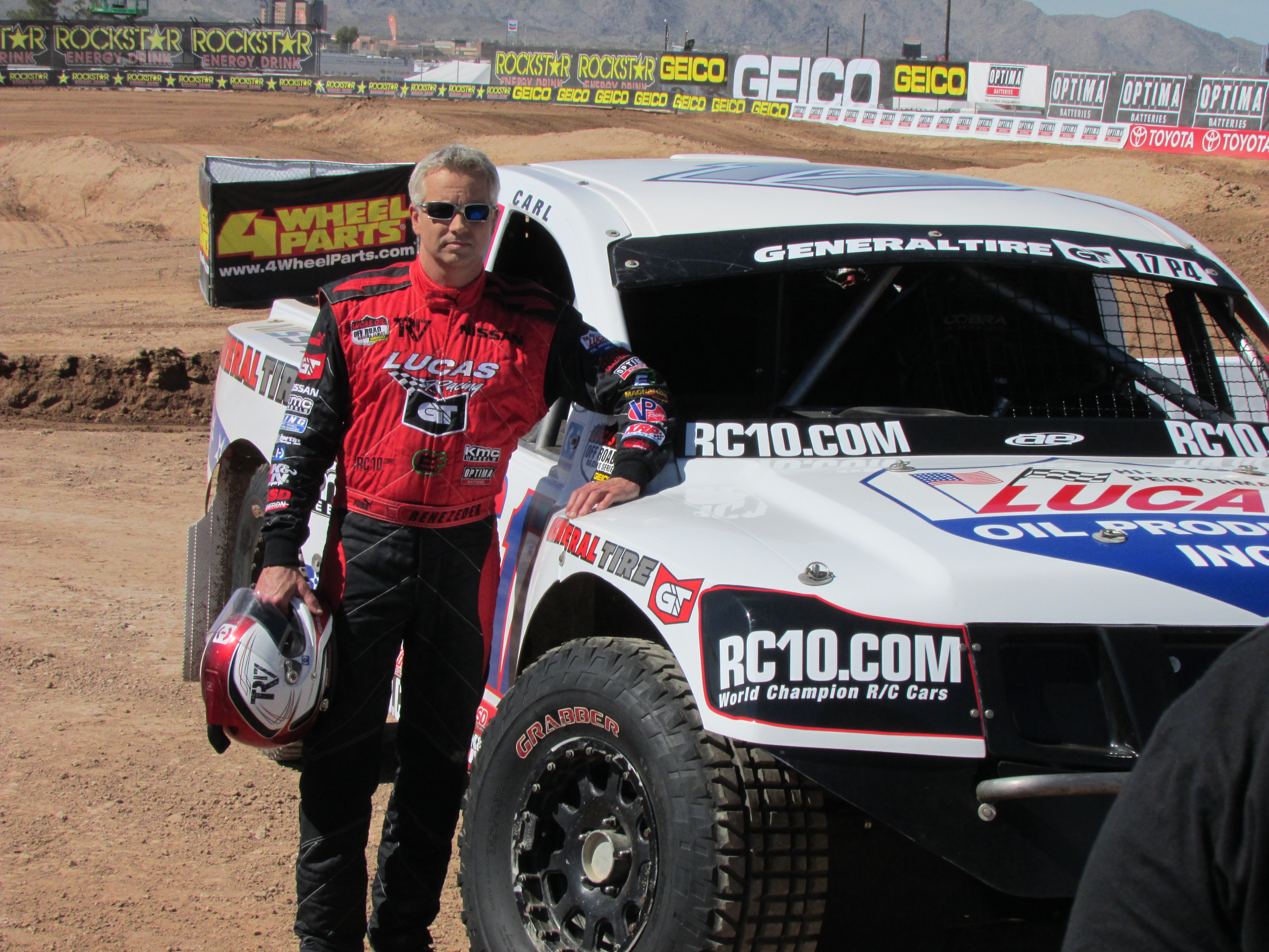 Carl Renezeder beside his trophy truck at Firebird International Raceway, Lucas Oil Off Road Racing Series